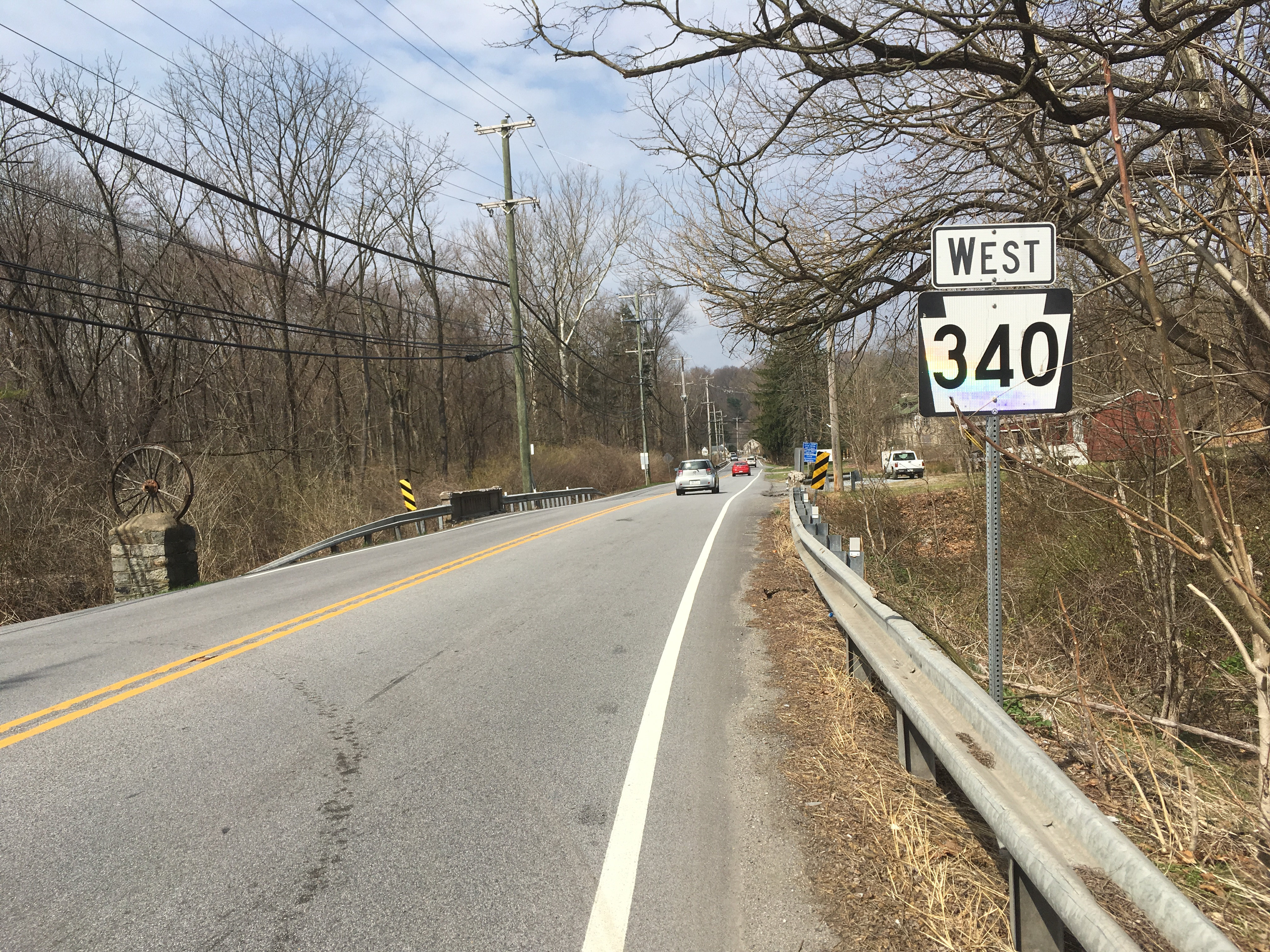 Westbound Pennsylvania Route 340 (Kings Highway) past the intersection with Pennsylvania Route 82 (Manor Road) in Coatesville, Pennsylvania